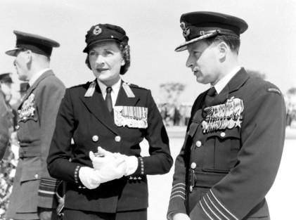 Valletta, Malta. Countess Mountbatten pictured with the Officer Commanding 78 Wing RAAF, Group Captain Brian A Eaton DSO, DFC of Canterbury, Vic, after the Anzac Day service in Malta. The Wing was stationed in Malta for garrison duty; along with 14 Squadron RNZAF it played an important role in the service.